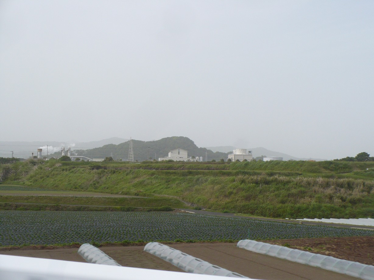 Full view of Yamagawa geothermal power station of Kyushu Electric Power Company, Ibusuki, Kagoshima, Japan. Main building containing steam turbin, generator and condenser is at the center, and cooling tower is at the right.